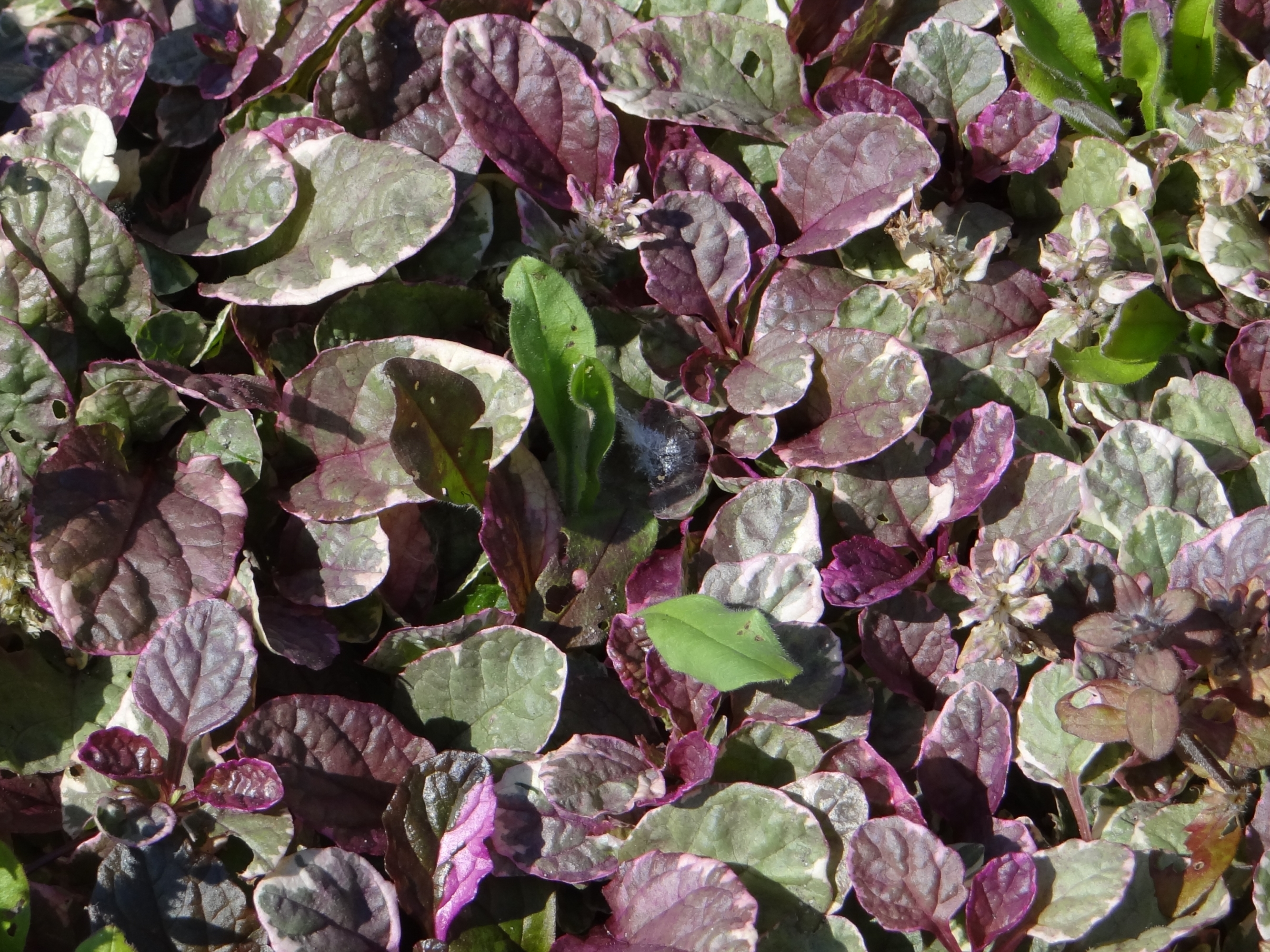 Ajuga reptans (location:Botanical Garden in Cracow)